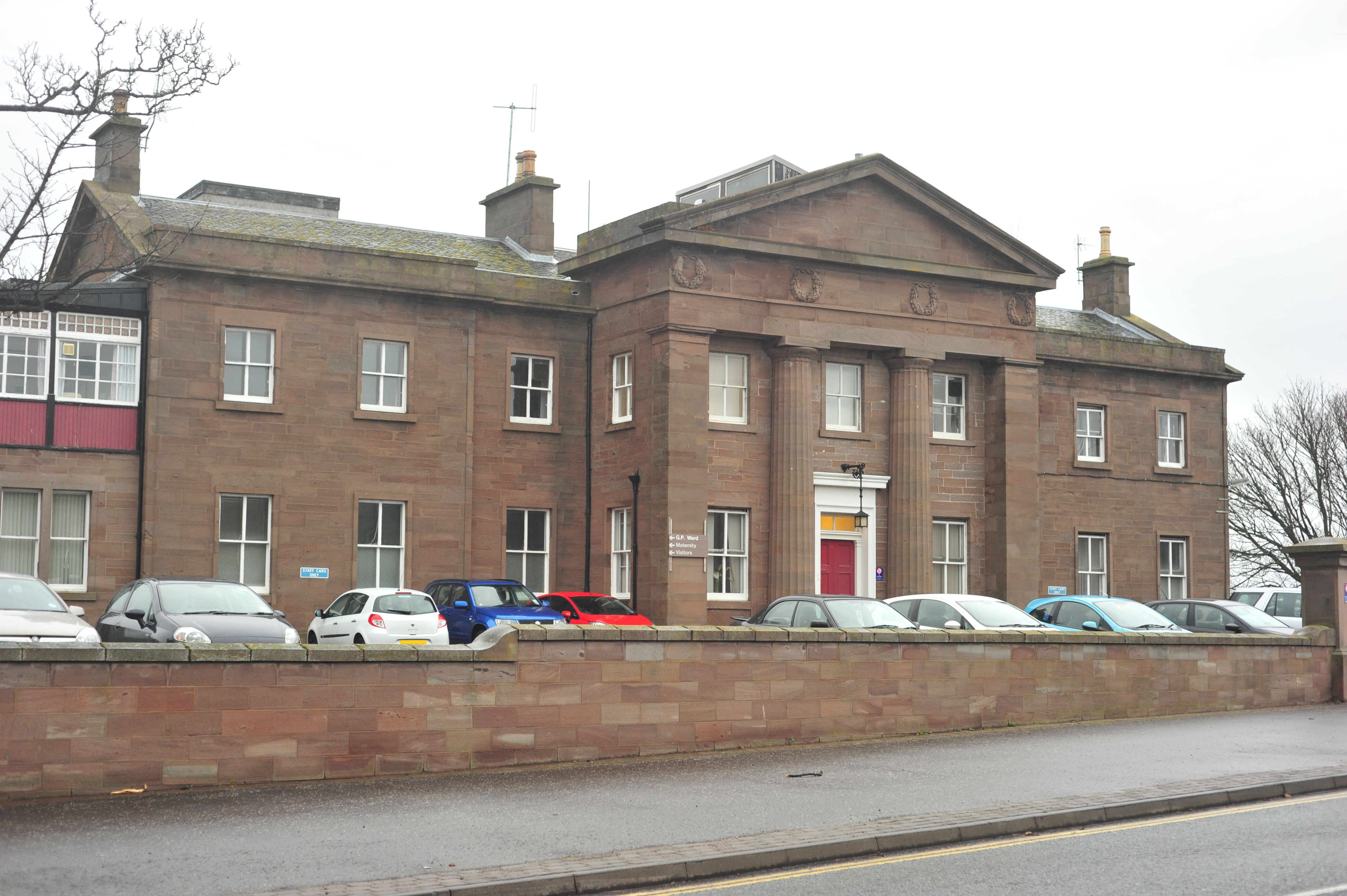 Montrose Infirmary, Bridge Street, Montrose. James Collie, Glasgow, 1836-39, early purpose-built hospital building. Greek Revival. 2-storey main block with symmetrical entrance elevation to E